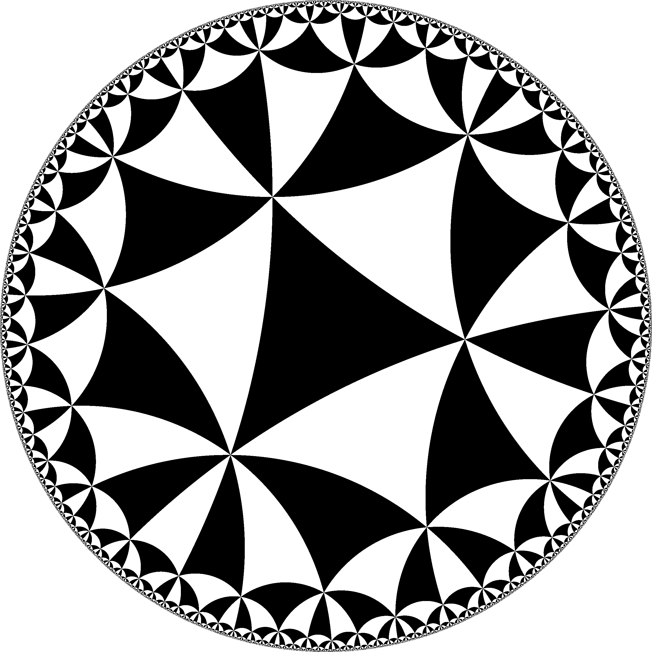 Tiling of the hyperbolic plane by triangles: π/4, π/4, π/5. Generated by Python code at User:Tamfang/programs. Dual